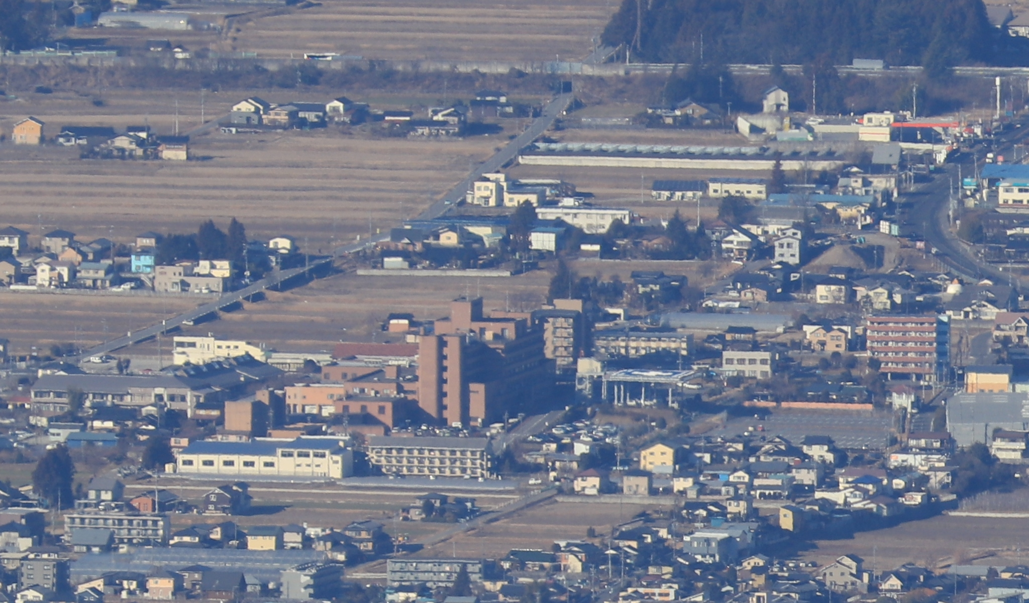 Showa Inan General Hospital seen from Mount Tokura in Komagane, Nagano Prefecture, Japan. Canon EOS Kiss X9